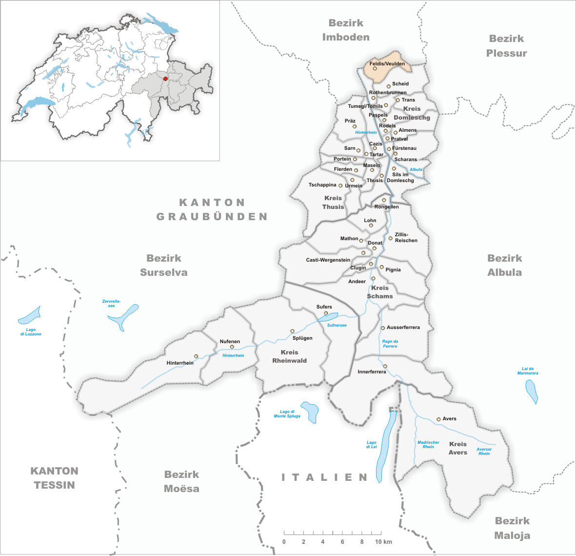 Municipality Feldis Veulden